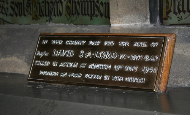 Victoria Cross Plaque This plaque to the only R.A.F. V.C. of the Town is situated in the Catholic Cathedral.